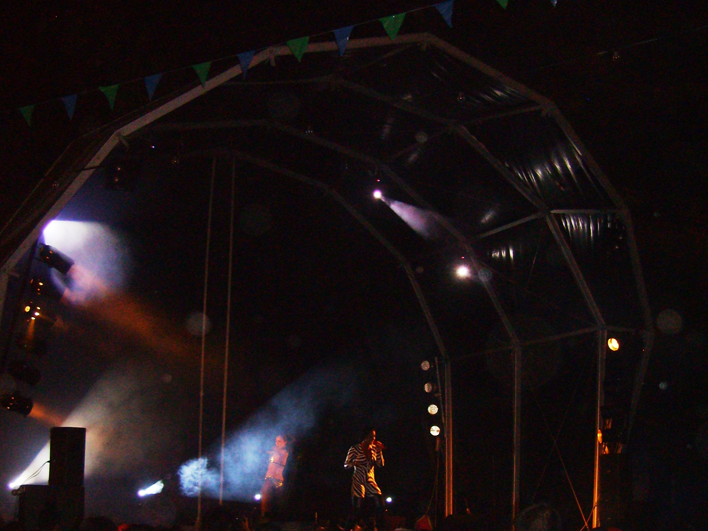 A evening concert with Ana Malhoa, during the festival of São Pedro Gonçalves Telmo (patron saint of fishermen), in the civil parish of Vila do Porto, municipality of Vila do Porto (Azores), Portugal